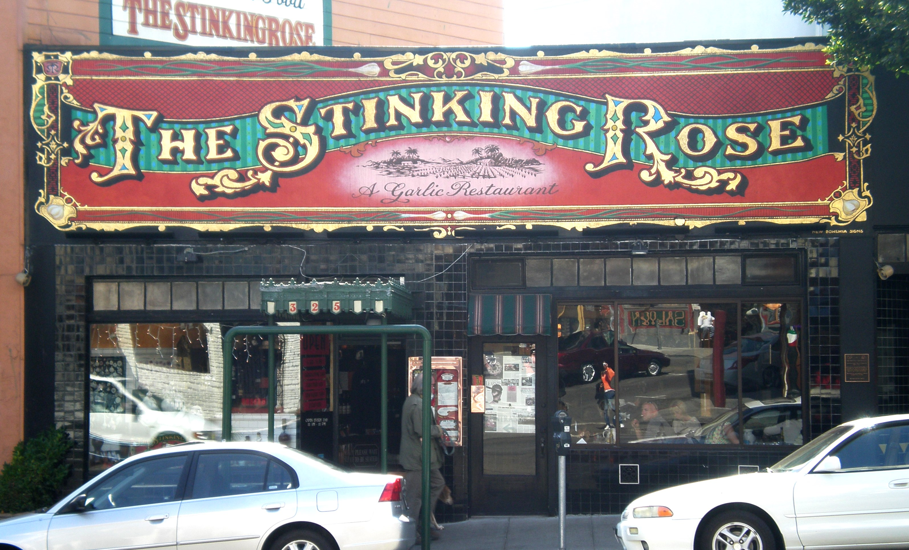 The Stinking Rose restaurant at 325 Columbus Avenue in San Francisco.